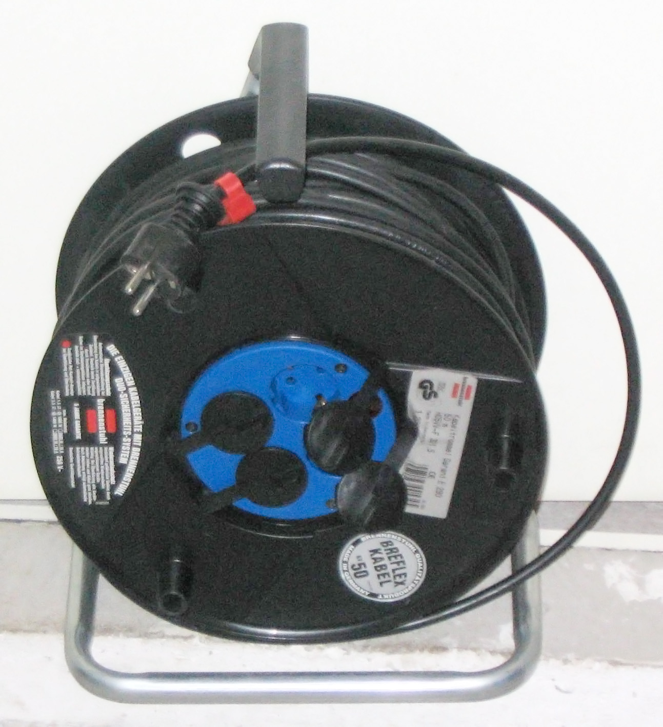 A cable reel